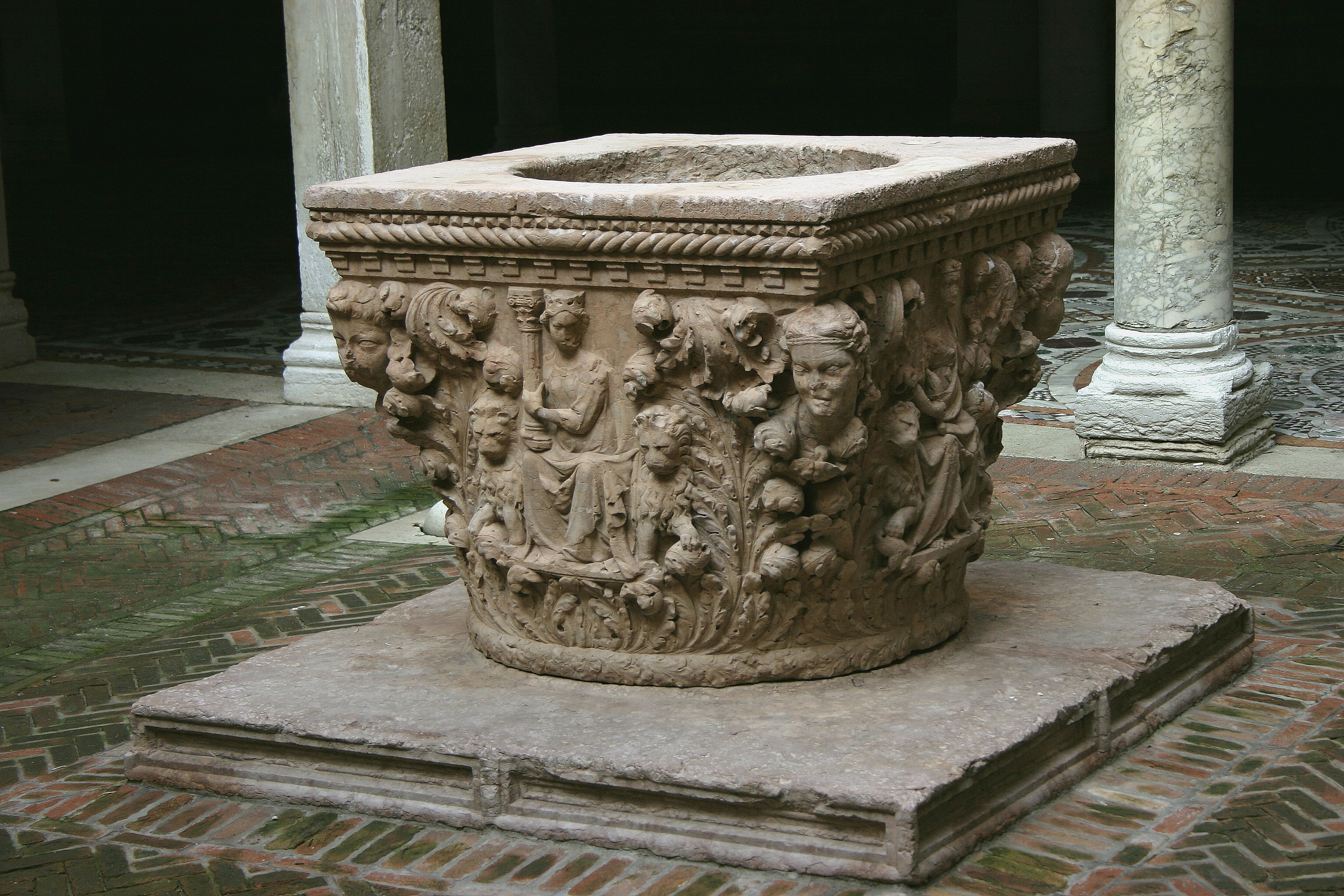 Venice – Well in the courtyard of the Ca' D'oro.